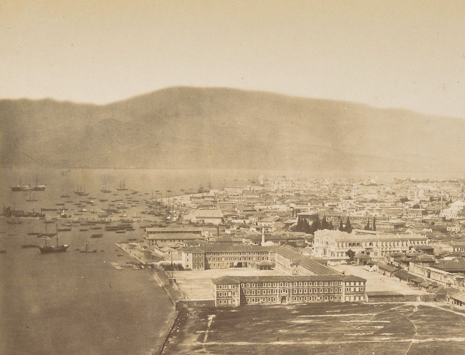 A photograph of the now-destroyed Yellow Barracks in İzmir, circa 1870s